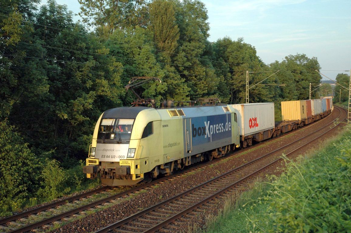 private leasing electric locomotive Dispolok ES 64 U2 003 near Lauffen am Neckar.